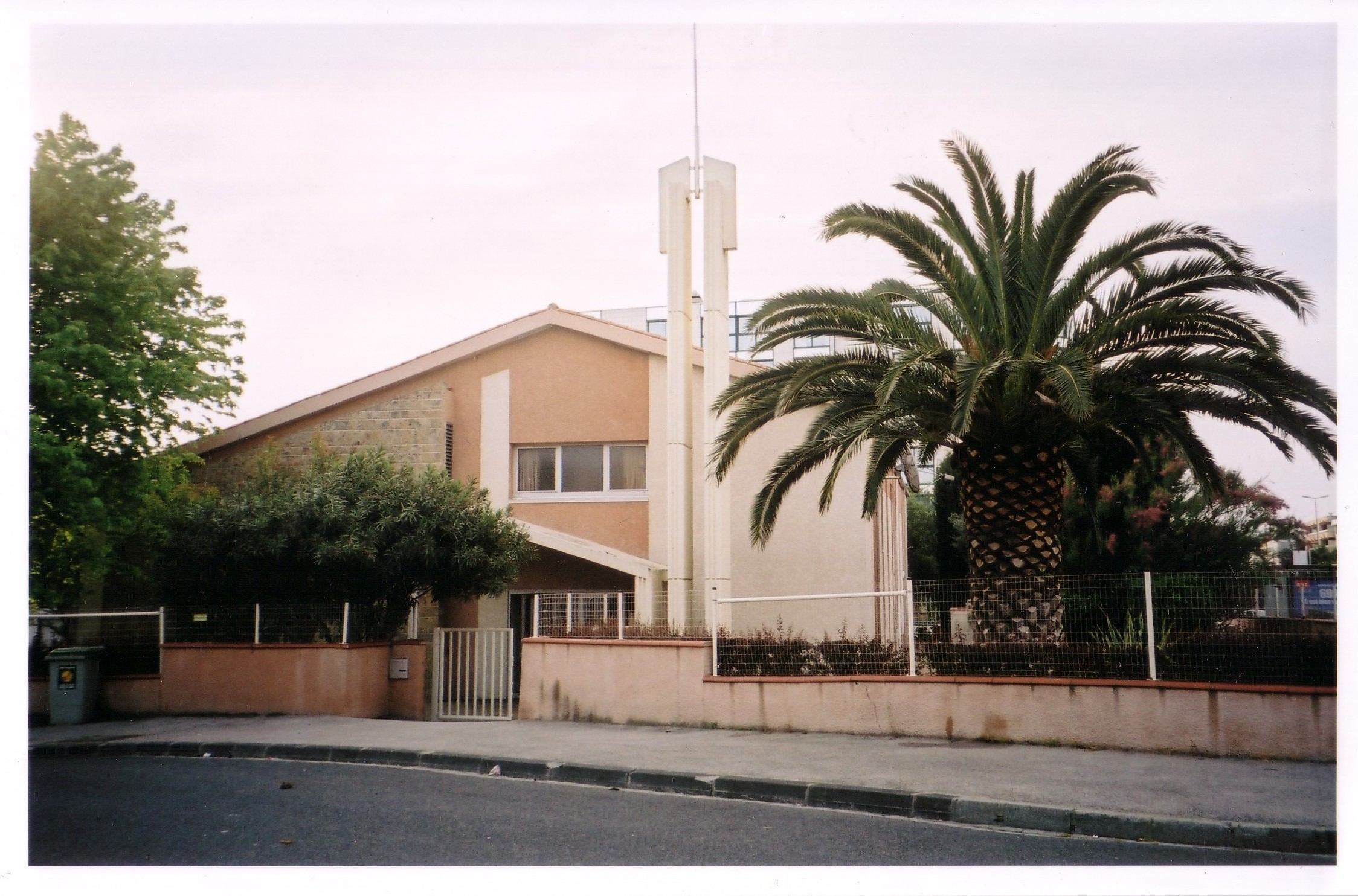 A meetinghouse of The Church of Jesus Christ of Latter-day Saints in Perpignan, France.